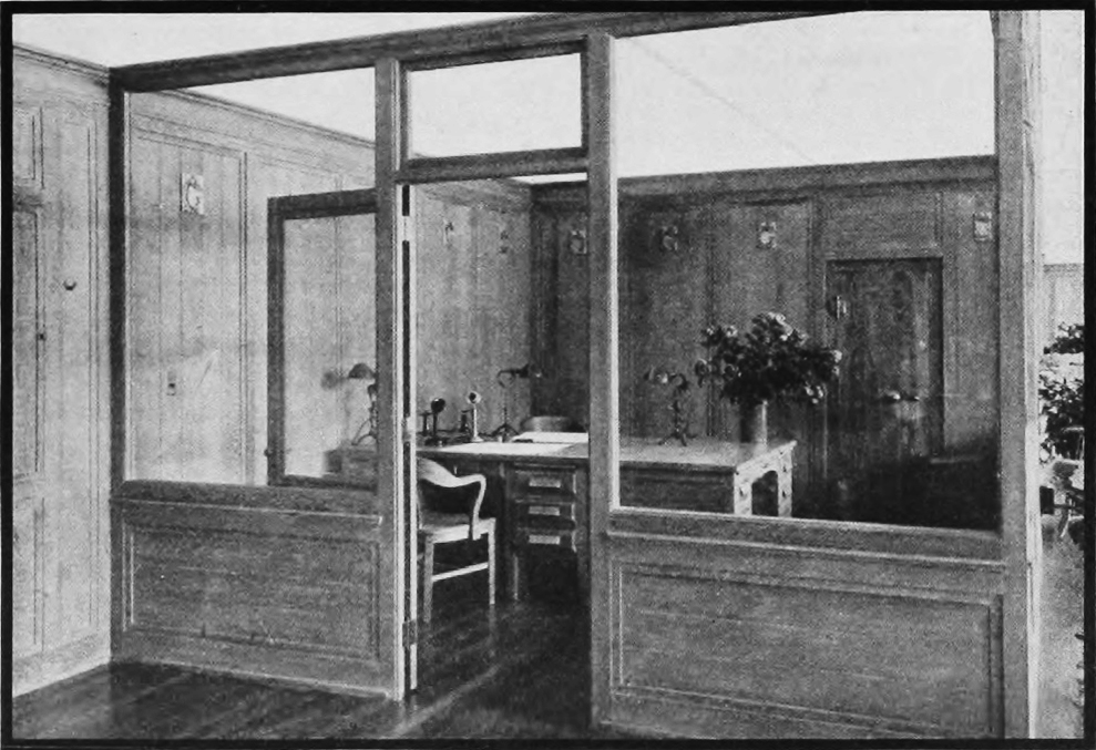 Public office in the showroom at the Baker Motor Vehicle Company building at 7100 Euclid Avenue in Cleveland, Ohio, in the United States.